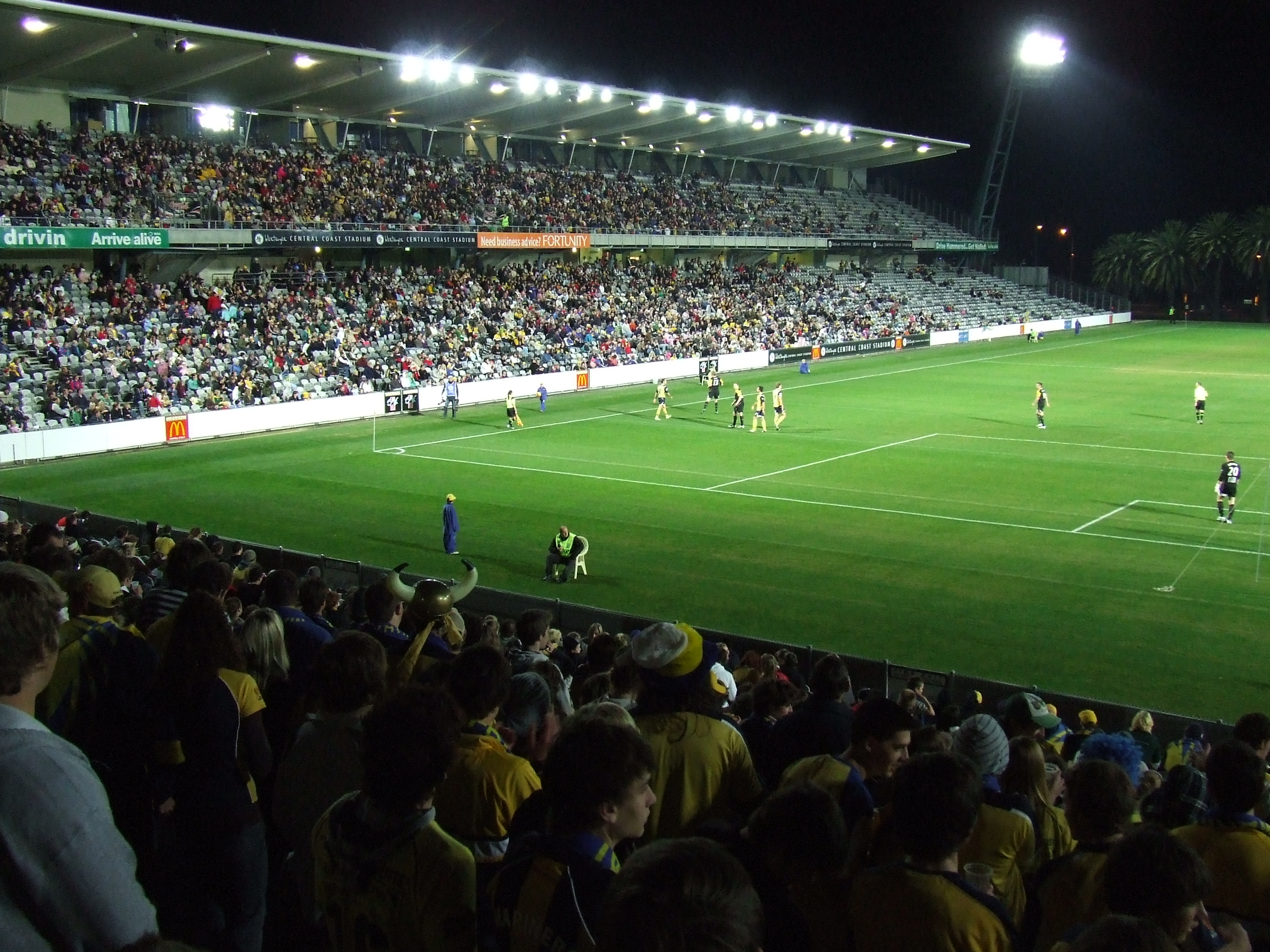 I took the photo myself on 14th July 2007